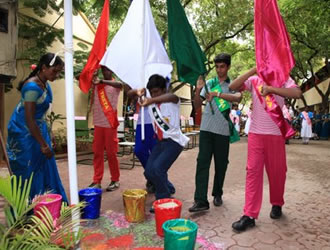 A picture of the school independence day